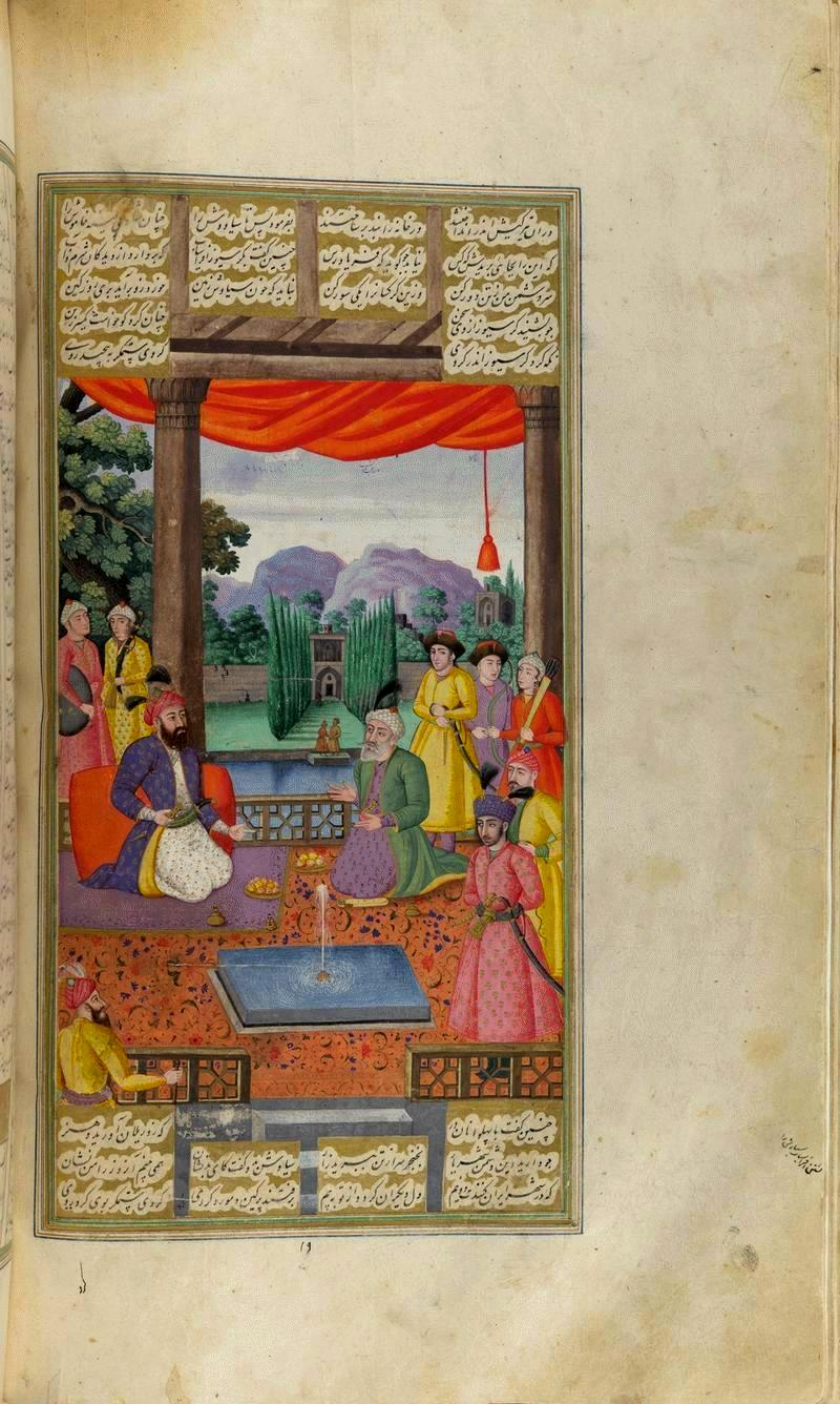 Siavush brought captive before Afrasiab